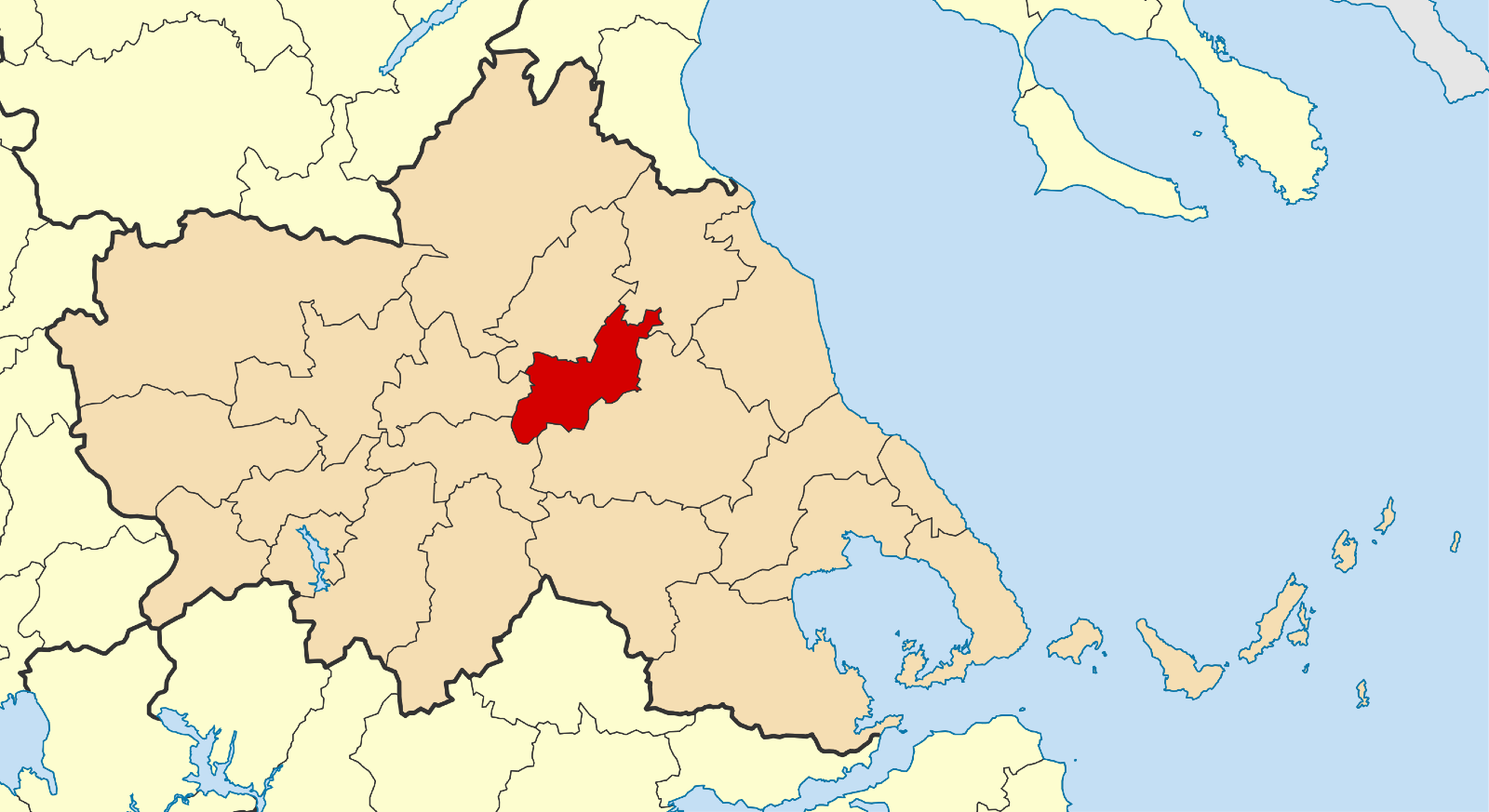 Locator map for Larisa municipality in Greek region Thessaly (2011)